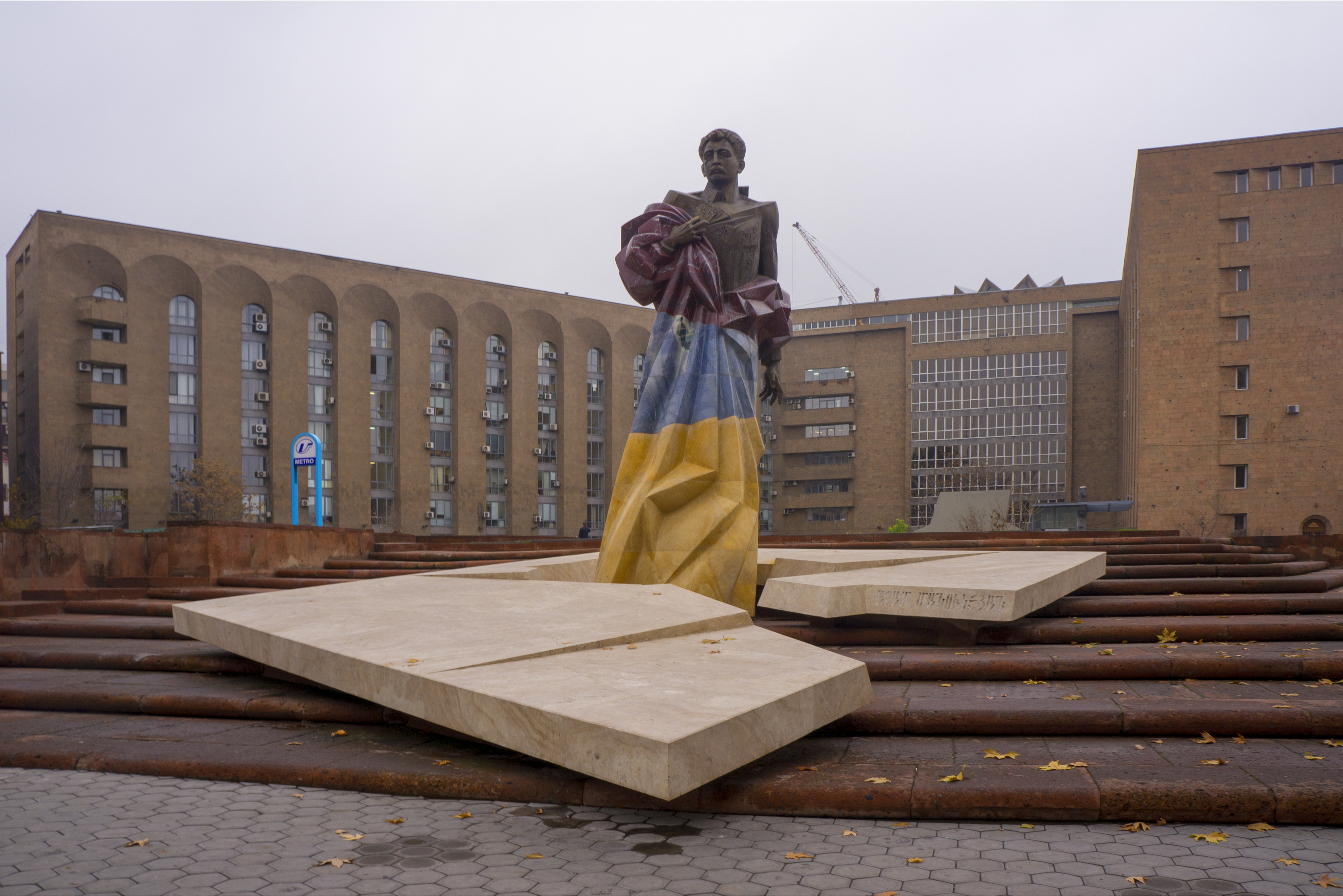 Aram Manukyan (Armenian revolutionary, statesman) statue in Yerevan, Armenia